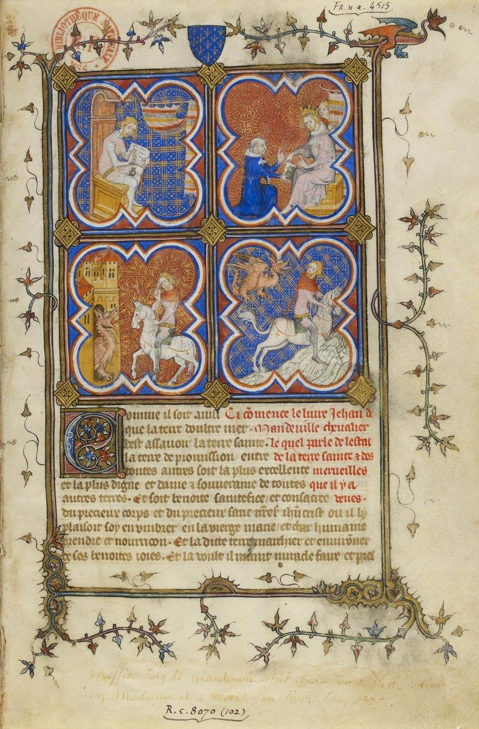 A page from the manuscript of John of Mandeville's journeys